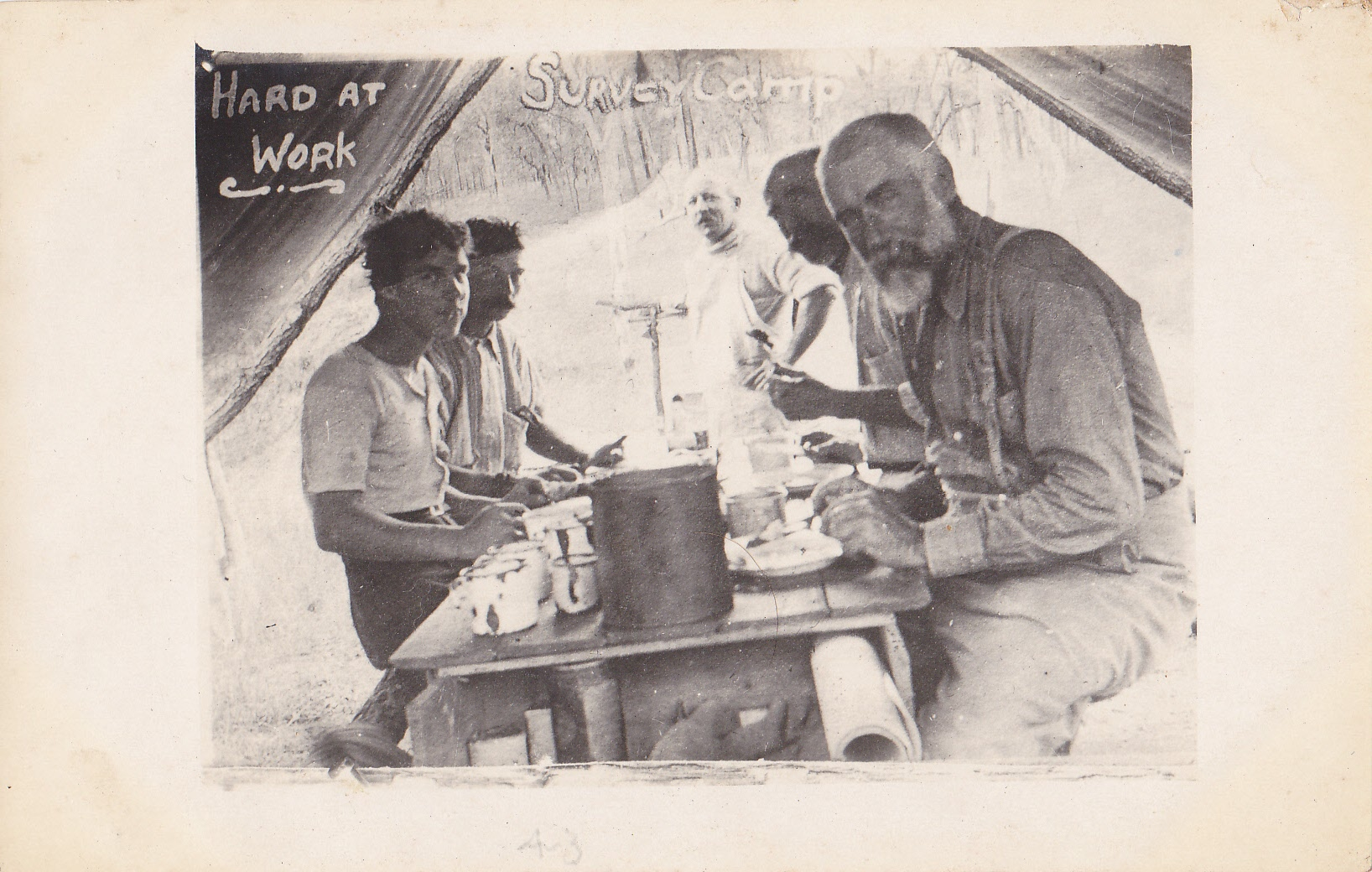 Hector Munro front right. Meal time at Munro's Camp circa 1910.